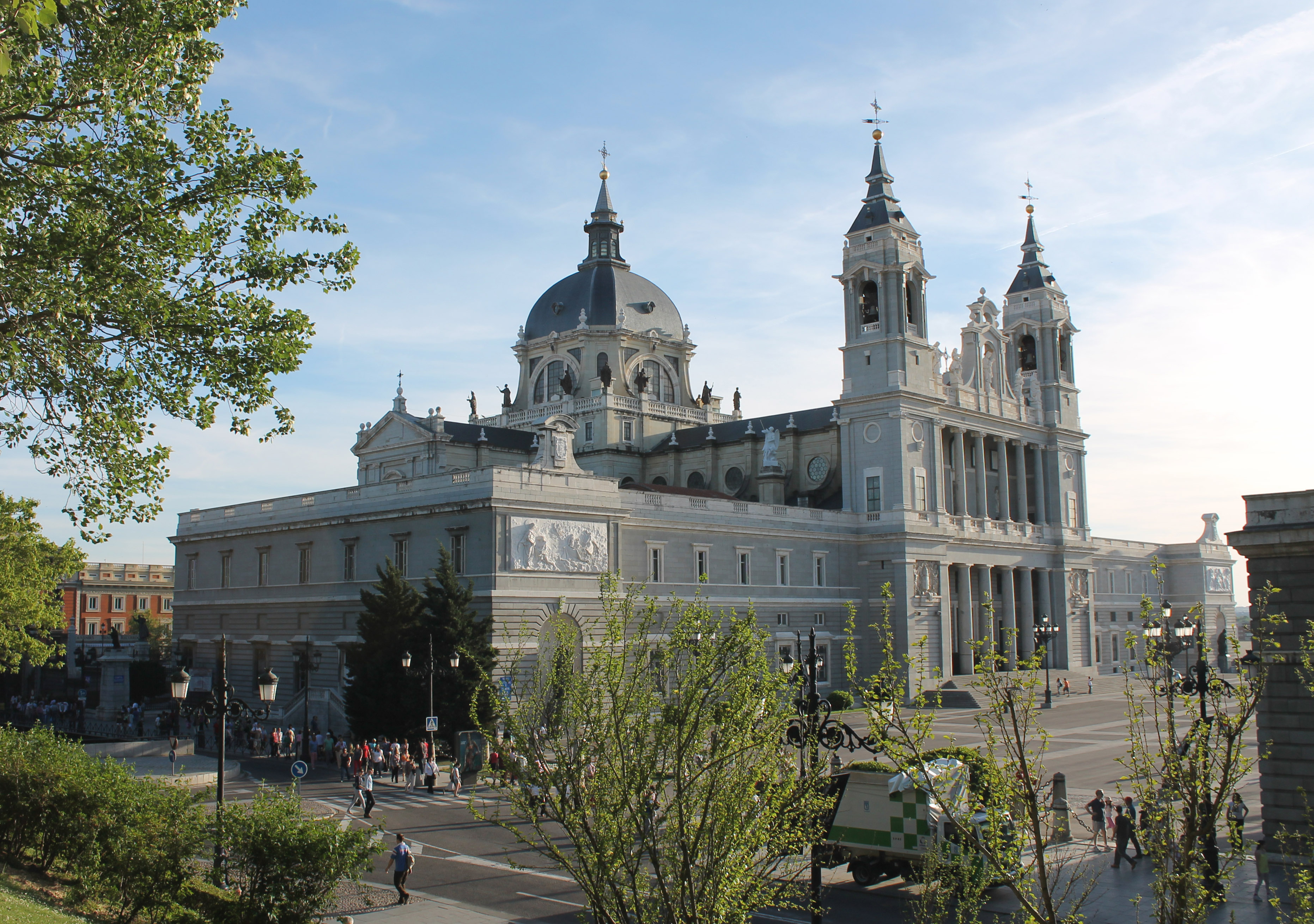 View of Almudena Cathedral in Madrid (Spain) from the north-east angle.